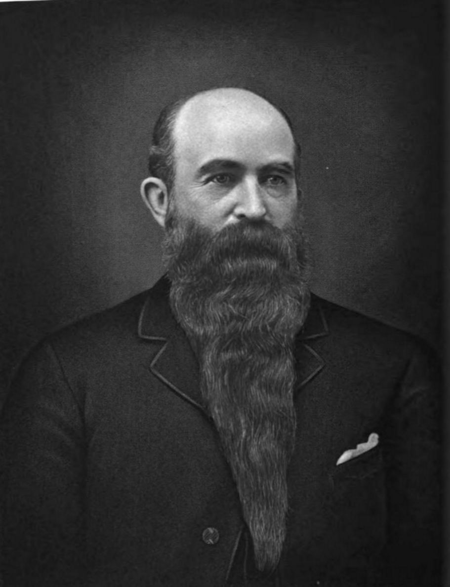 Late 19th-century portrait of Robert W. Hill (1828-1909), a prominent architect of Waterbury, Connecticut.